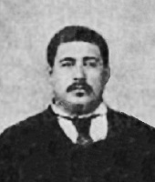 The Salmon Family of Tahiti. Top left to right: Narii, Ariipaea, and Tati Salmon.[1] And bottom: Marau second on left; Arii Taimai at far right, two unidentified.